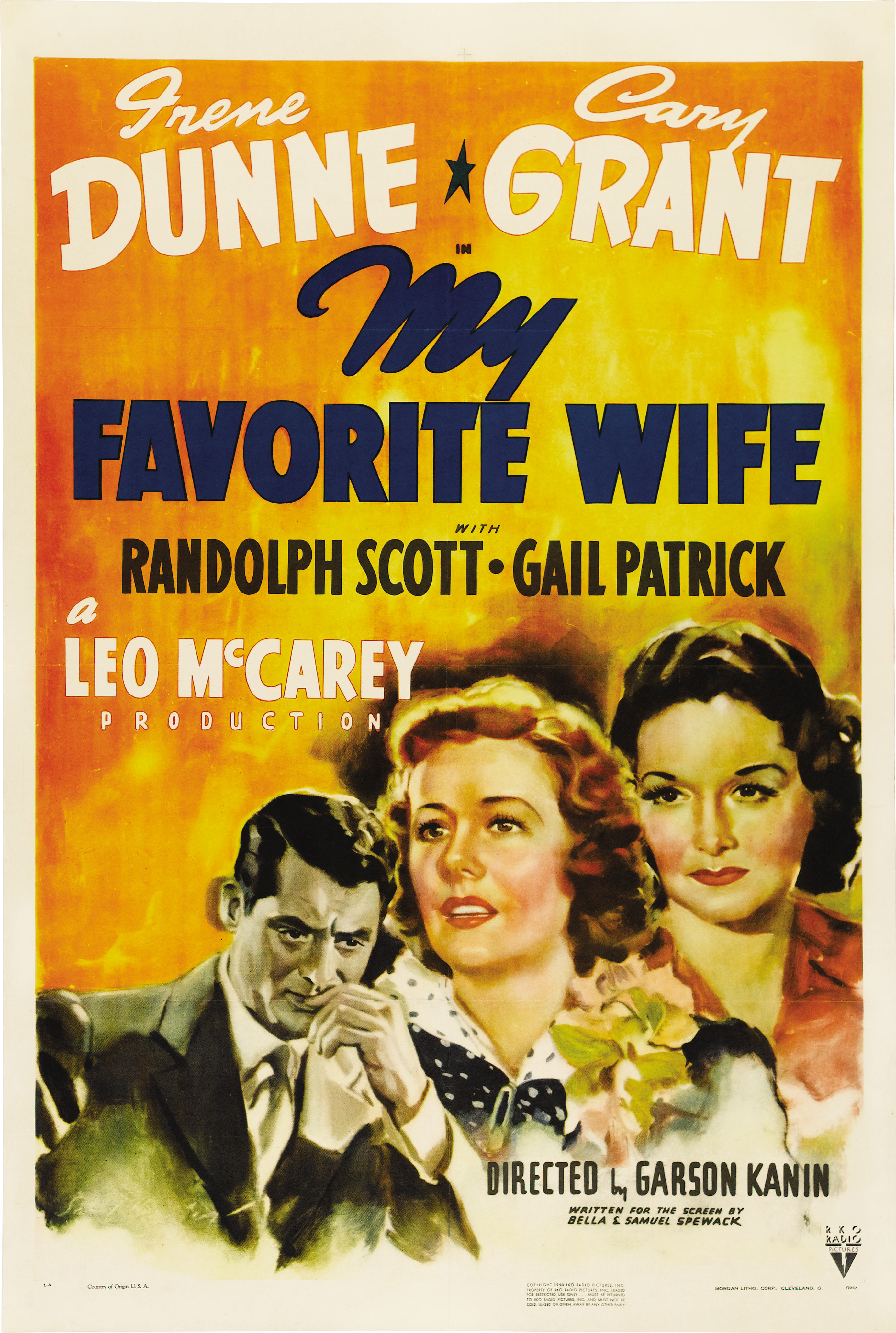 Poster for the film My Favorite Wife (1940), featuring stars Cary Grant, Irene Dunne, and Gail Patrick